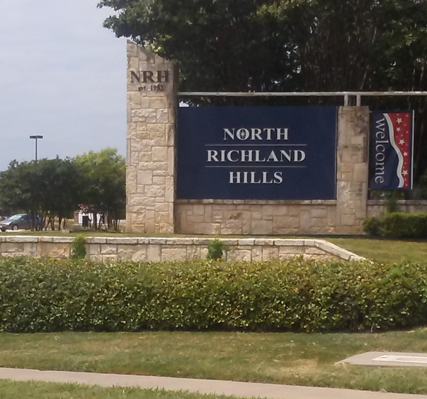 The photo is of a North Richland Hills, TX welcoming sign on Boulevard 26.